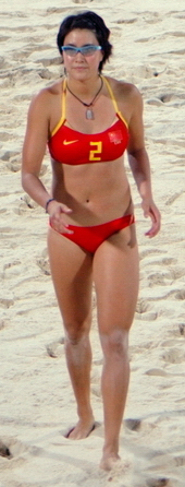 Zhang Xi, chinese beach volleyball player, at the 2008 Sumemer olympics